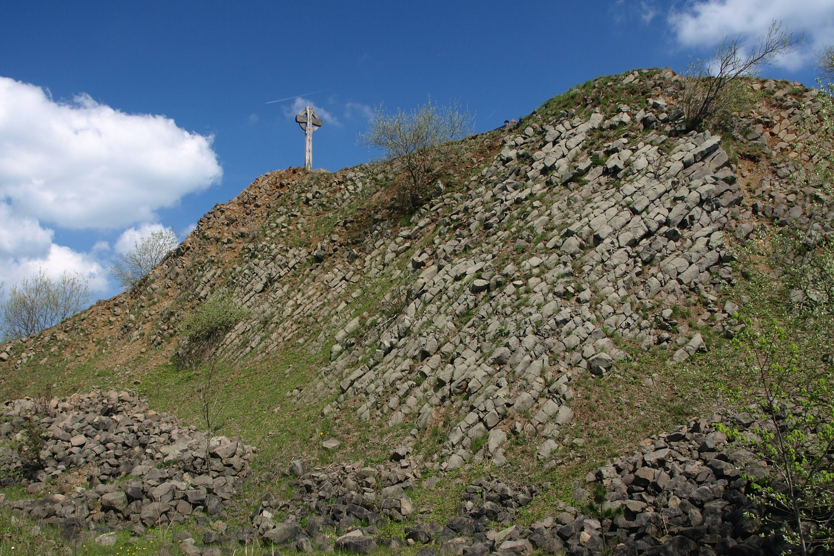 Basalt formation underneath the summit of the Öchsenberg. The summit cross has the form of a celtic cross. In refers to the celtic Oppidum on the Öchsenberg